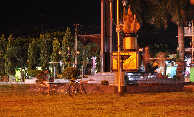 alun-alun kroya